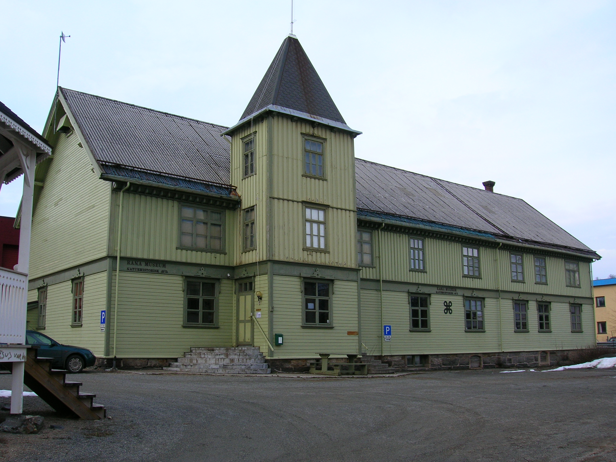 Moholmen, Mo i Rana, Photo April 16, 2007 with a Nikon Coolpix 5600 5,1 Megapixel camera.